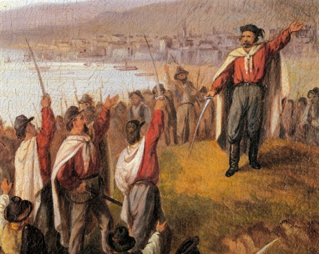 Expedition of Thousand, landing at Marsala, Garibaldi haranguing from hill, 11 May 1860 Image ID: DGA 515649 Credit: Expedition of Thousand, landing at Marsala, Garibaldi haranguing from hill, 11 May 1860 / De Agostini Picture Library / G. Cigolini / The Bridgeman Art Library DGA 515649 Image number: Expedition of Thousand, landing at Marsala, Garibaldi haranguing from hill, 11 May 1860 Title: De Agostini Picture Library / G. Cigolini Credit: (19th) Date: Horizontal Orientation